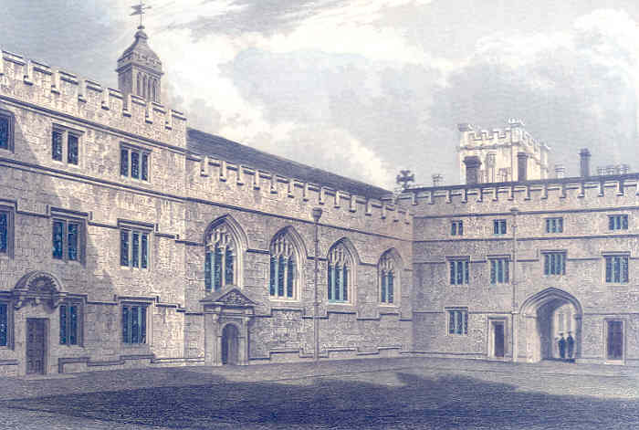 A view of the interior of the first quadrangle of Jesus College, Oxford from "MEMORIALS OF OXFORD By James Ingram DD. President of Trinity College. The engravings by John Le Keux from drawings by F. Mackenzie." (1837)